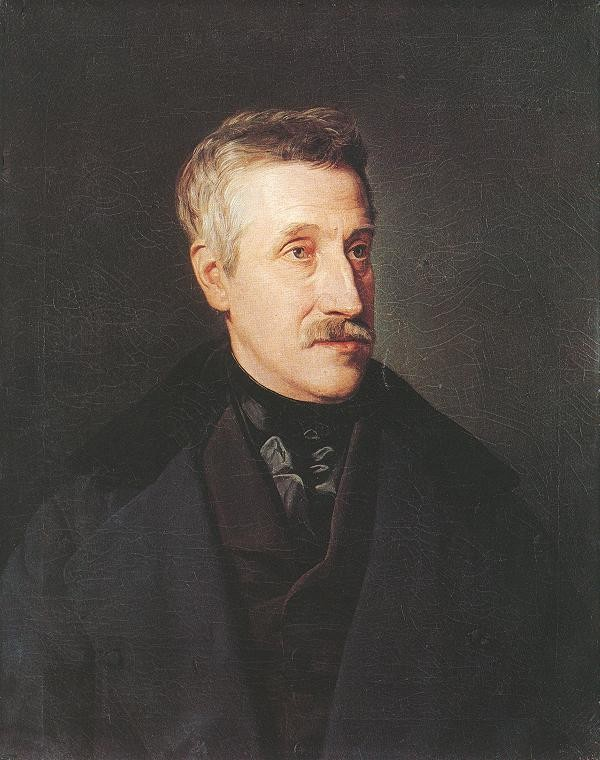 Portrait of György Gaál